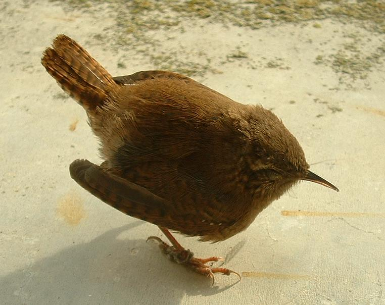 Troglodytes caught and knocked out by my cat